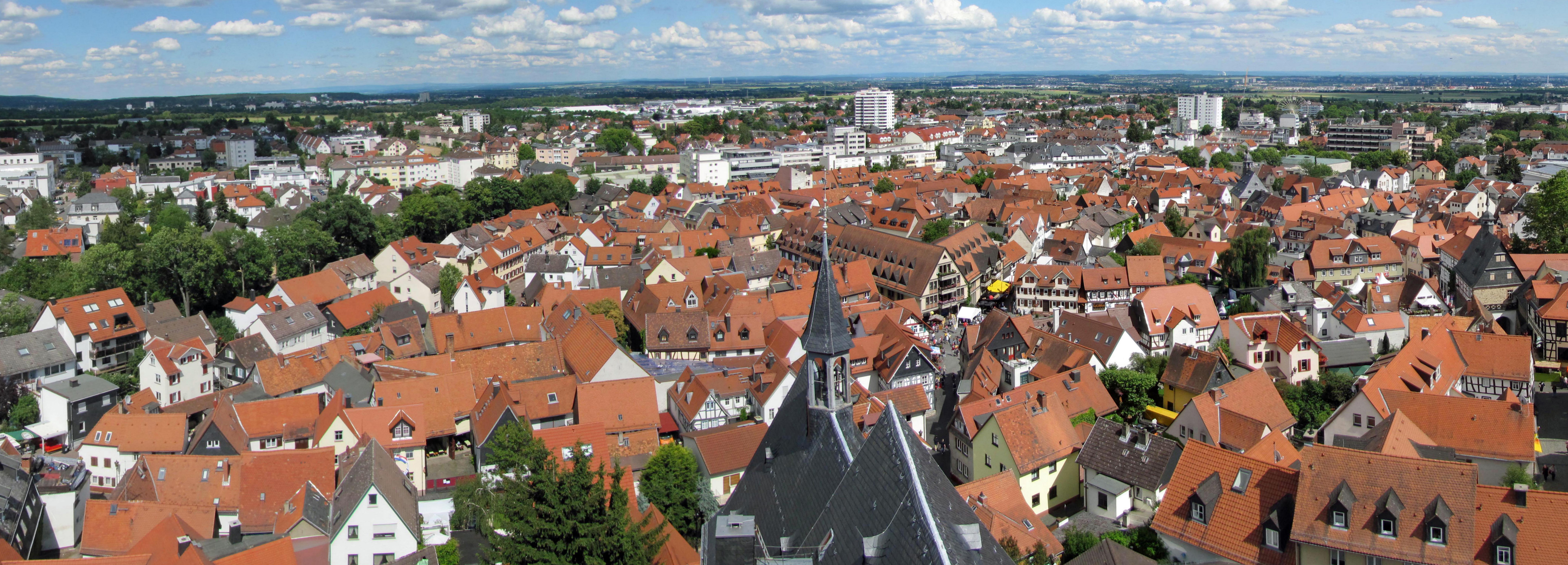 View over Oberursel in south-east direction, from tower of St. Ursula, Hesse, Germany.